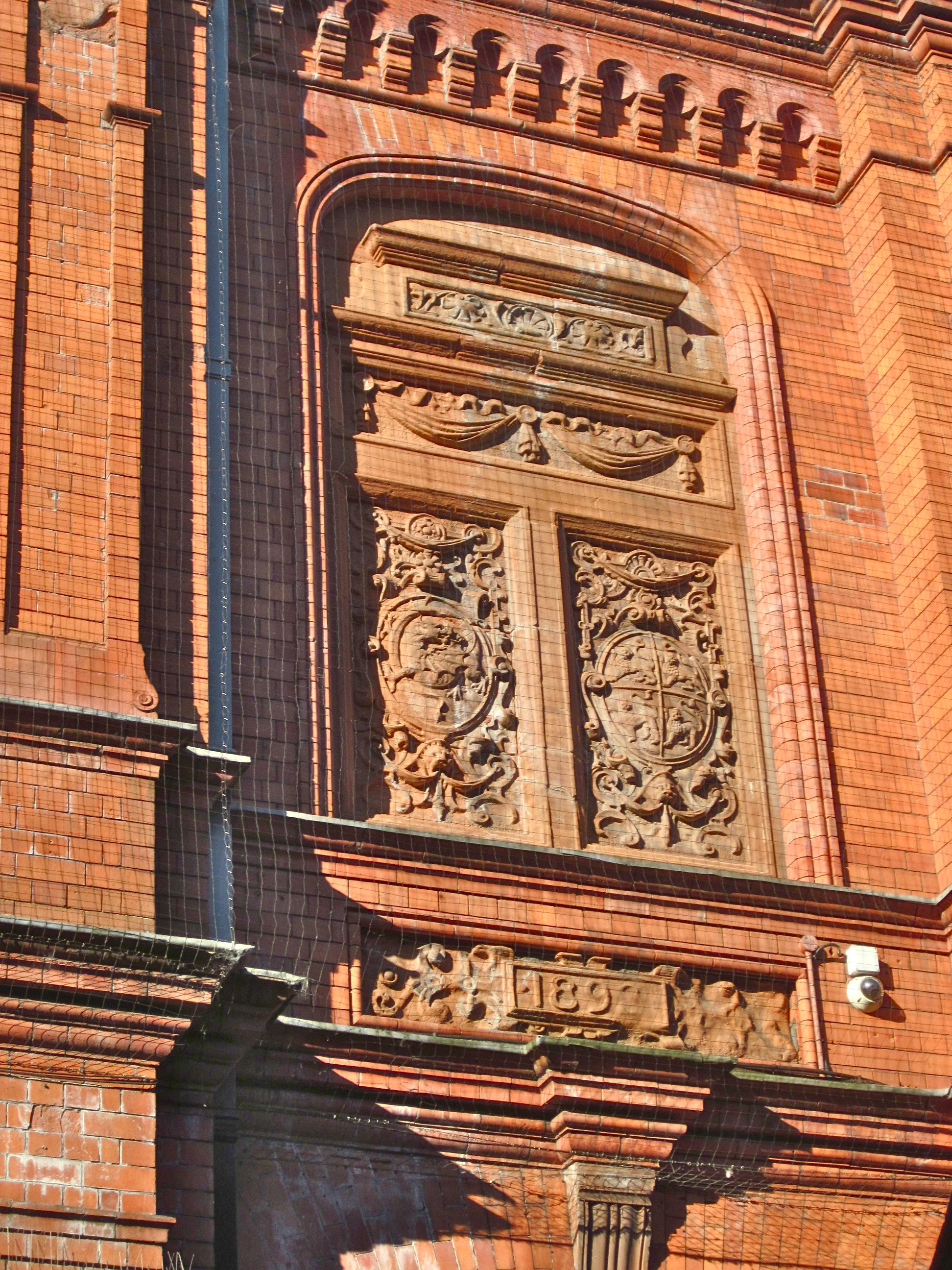 South Wales Institute of Engineers, Park Lane Cardiff